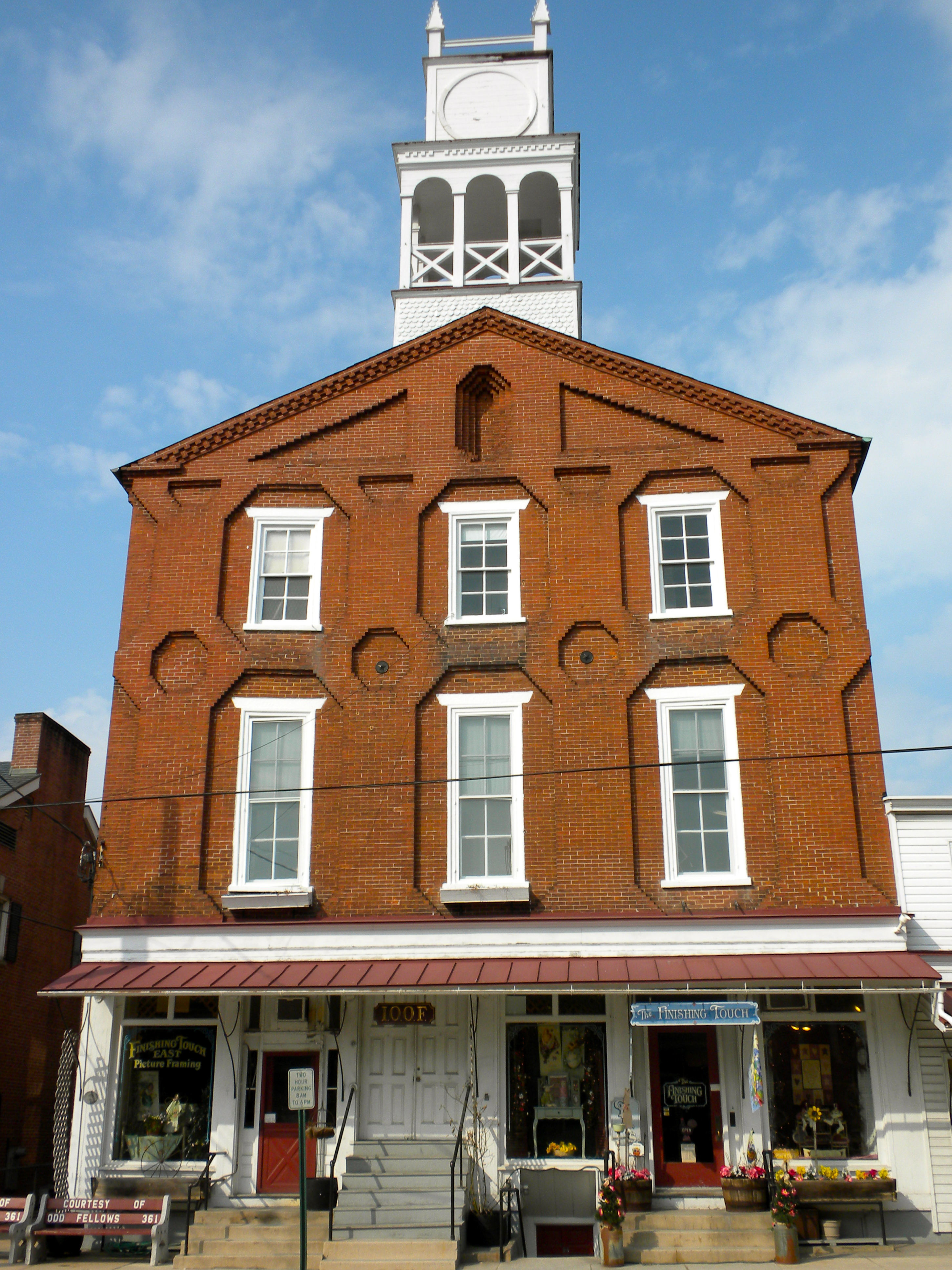 7 East Main St., Strasburg, PA, aka “Massasoit Hall” in Center Square, erected in 1856. A large brick building, long the focal point of the town’s activities. The first floor is 11' high, the second is 15' and the third 10'. This building houses the I.O.O.F. meeting rooms. Carries a plaque with the date of 1856. The town of Strasburg is a Historic District on the NRHP since March 3, 1983 The HD covers East and West Main, West Miller, and South Decatur Streets, which is most of the town.